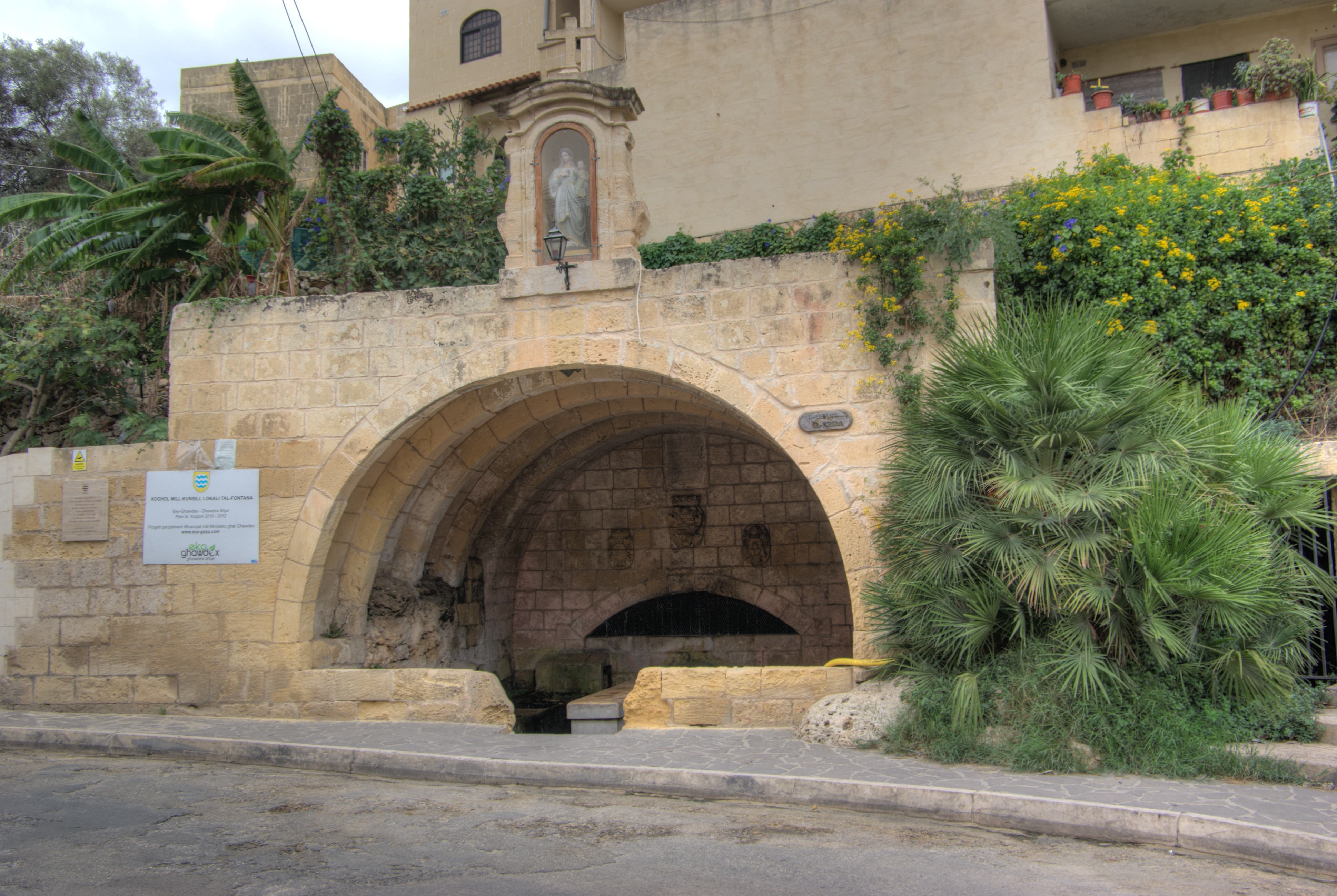 Malta, Gozo, Waschhaus in Il-Fontana bei Victoria This media is about Maltese cultural property with inventory number 04.